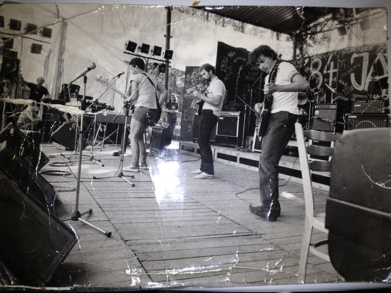 Jarocin Festiwal 1984